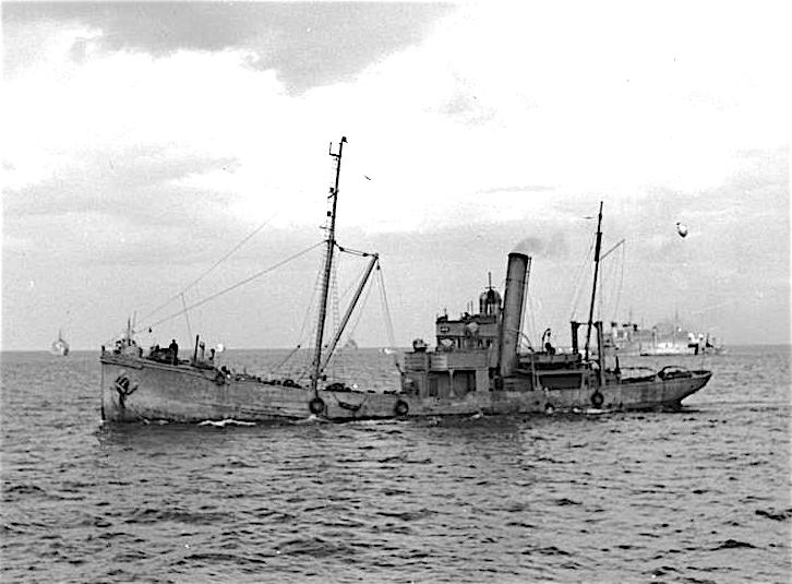 Hmt King Lear Underway